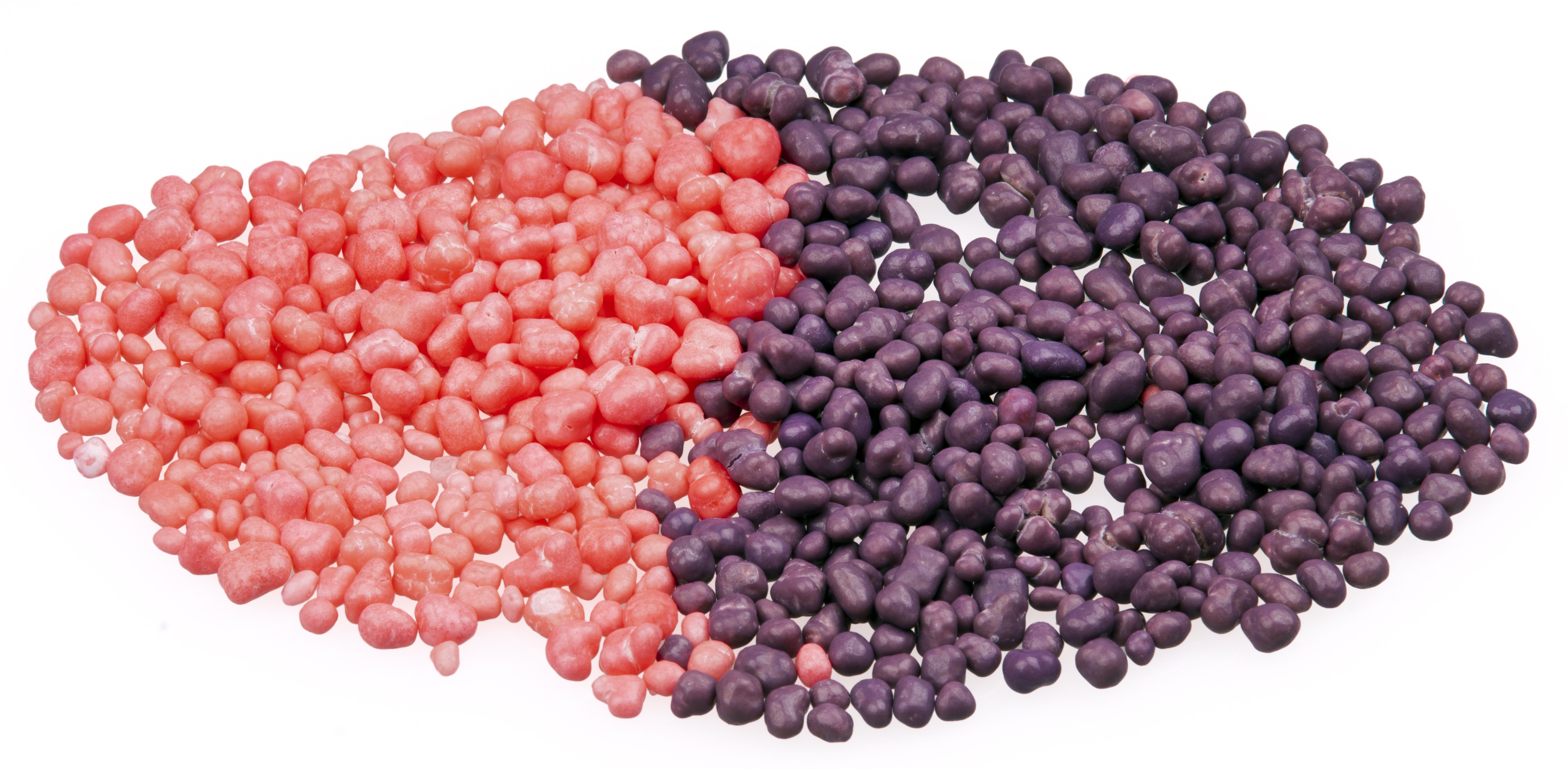 A pile of Nerds candies, made by Willy Wonka. From a box that has strawberry and grape flavors.